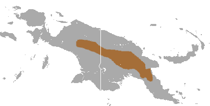 Habbema Dasyure (Micromurexia habbema) range